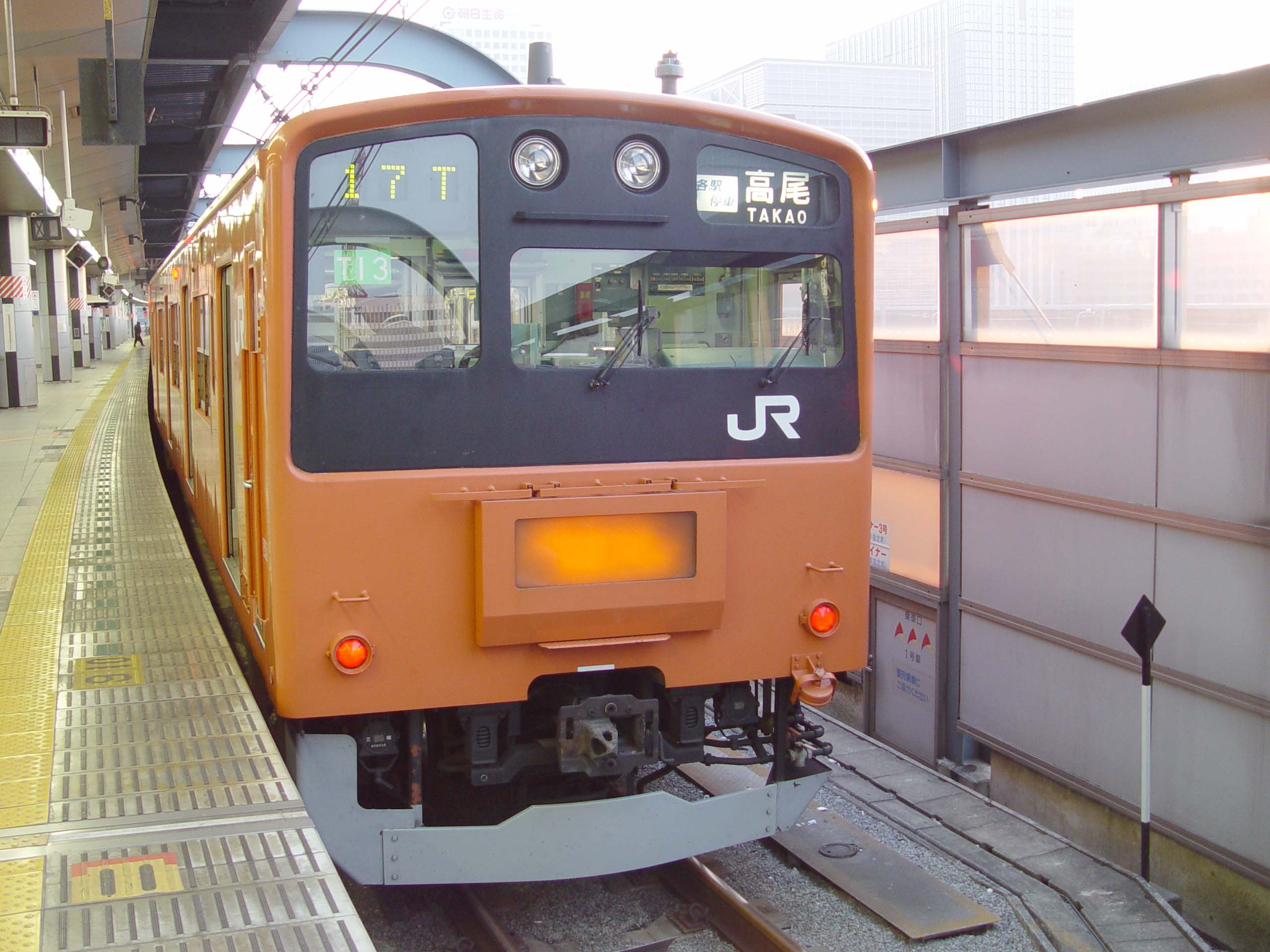 Local train of Chuo Line at Tokyo Sation